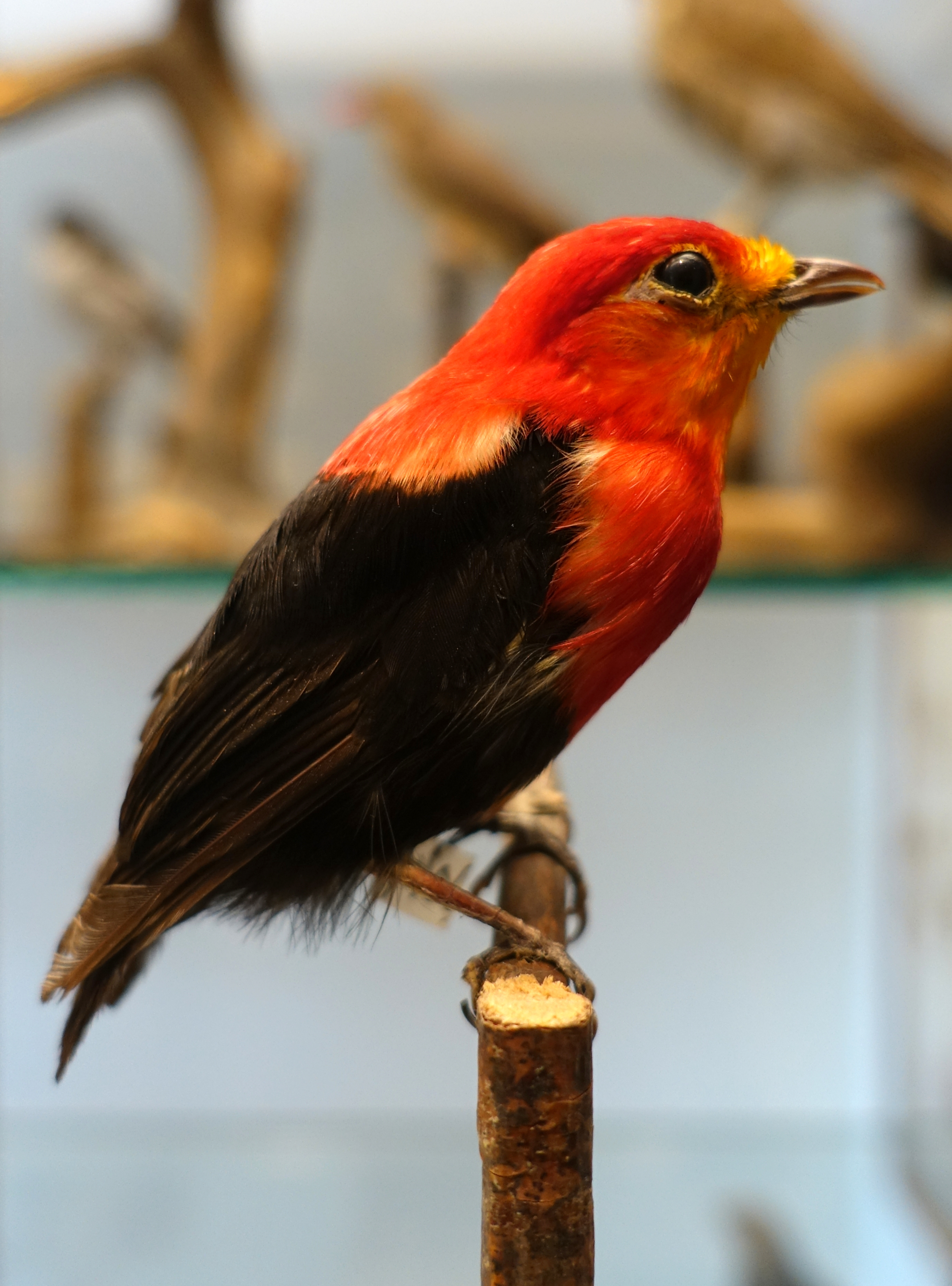 Exhibit in the Swedish Museum of Natural History - Stockholm, Sweden.